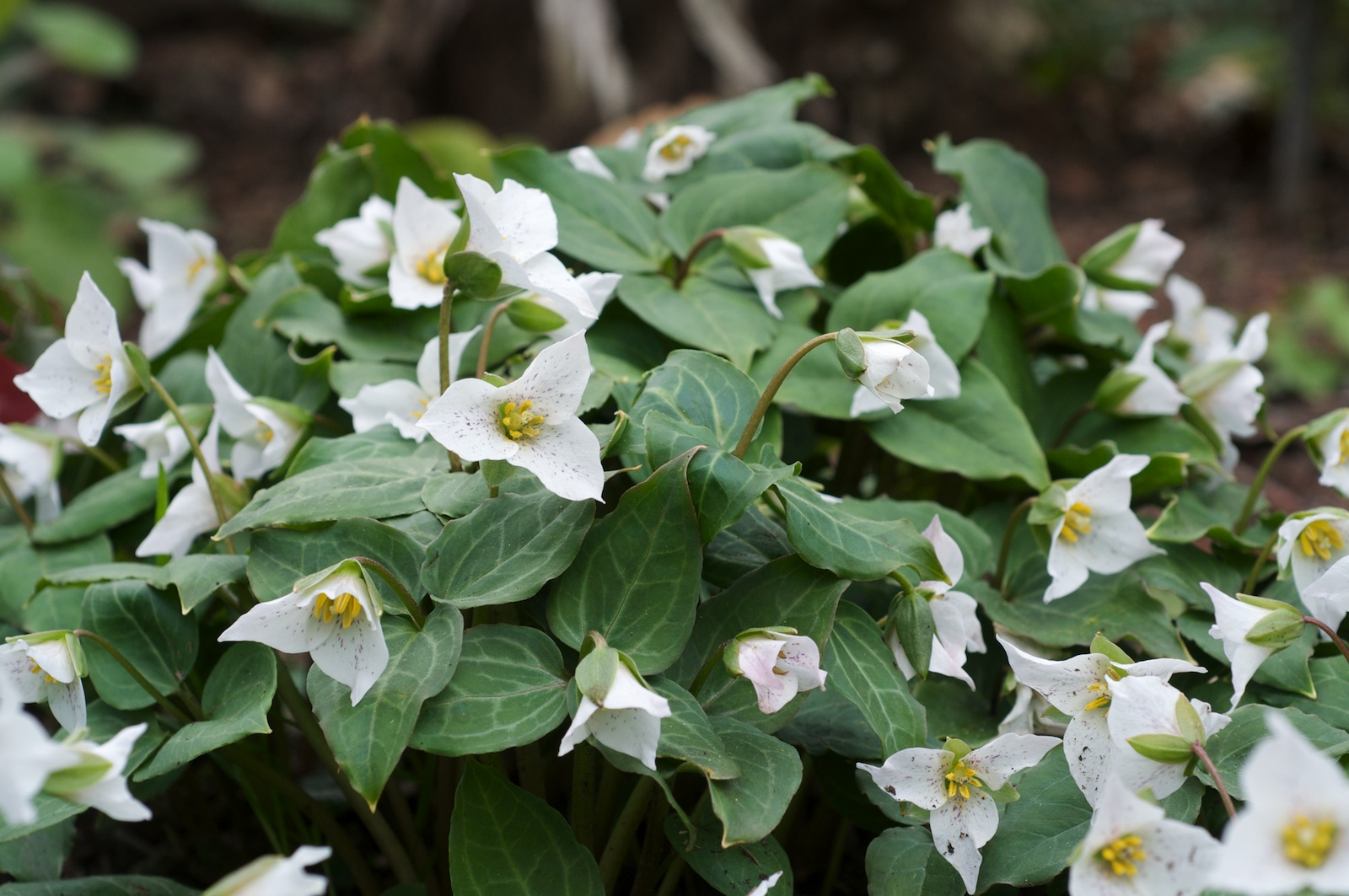 Pseudotrillium rivale - Species from California and Oregon Photographed at Tilden Regional Parks Botanic Garden